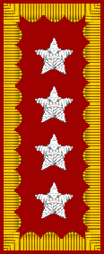 Shoulder board insignia of the Commander-in-Chief of the Chilean Army